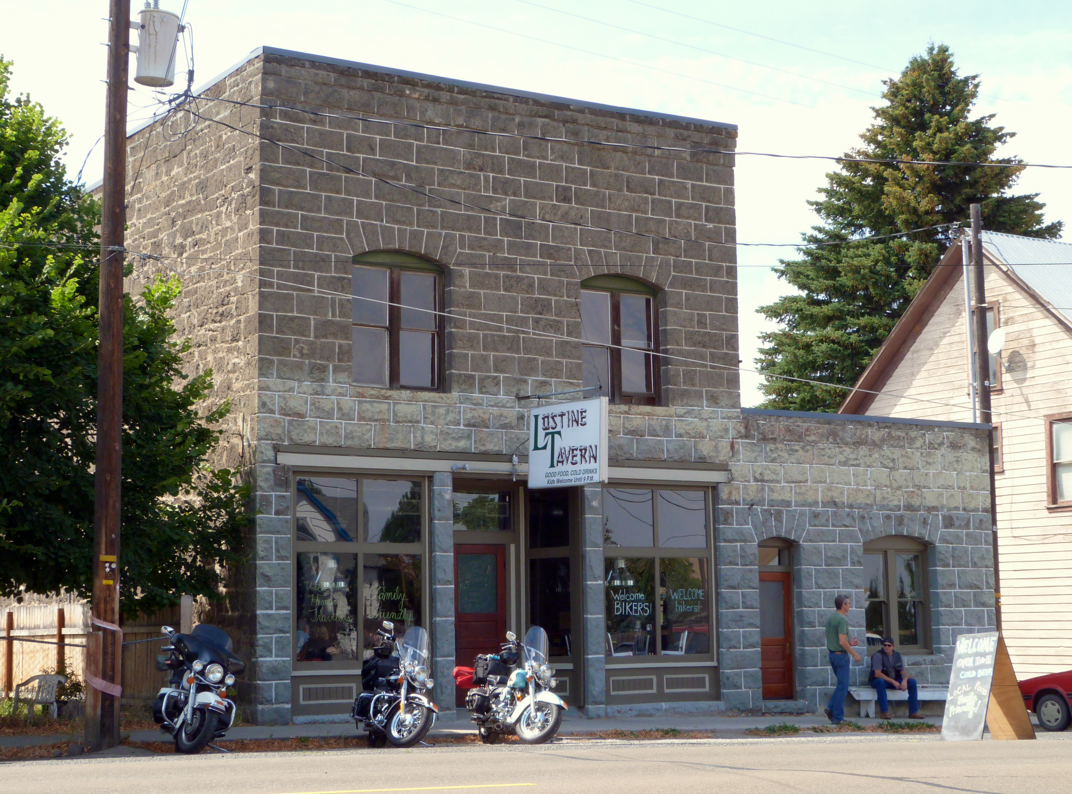 The historic Lostine Tavern, located at 125 Highway 82 in Lostine, Oregon, United States, is listed on the US National Register of Historic Places under its historic name "Lostine Pharmacy".